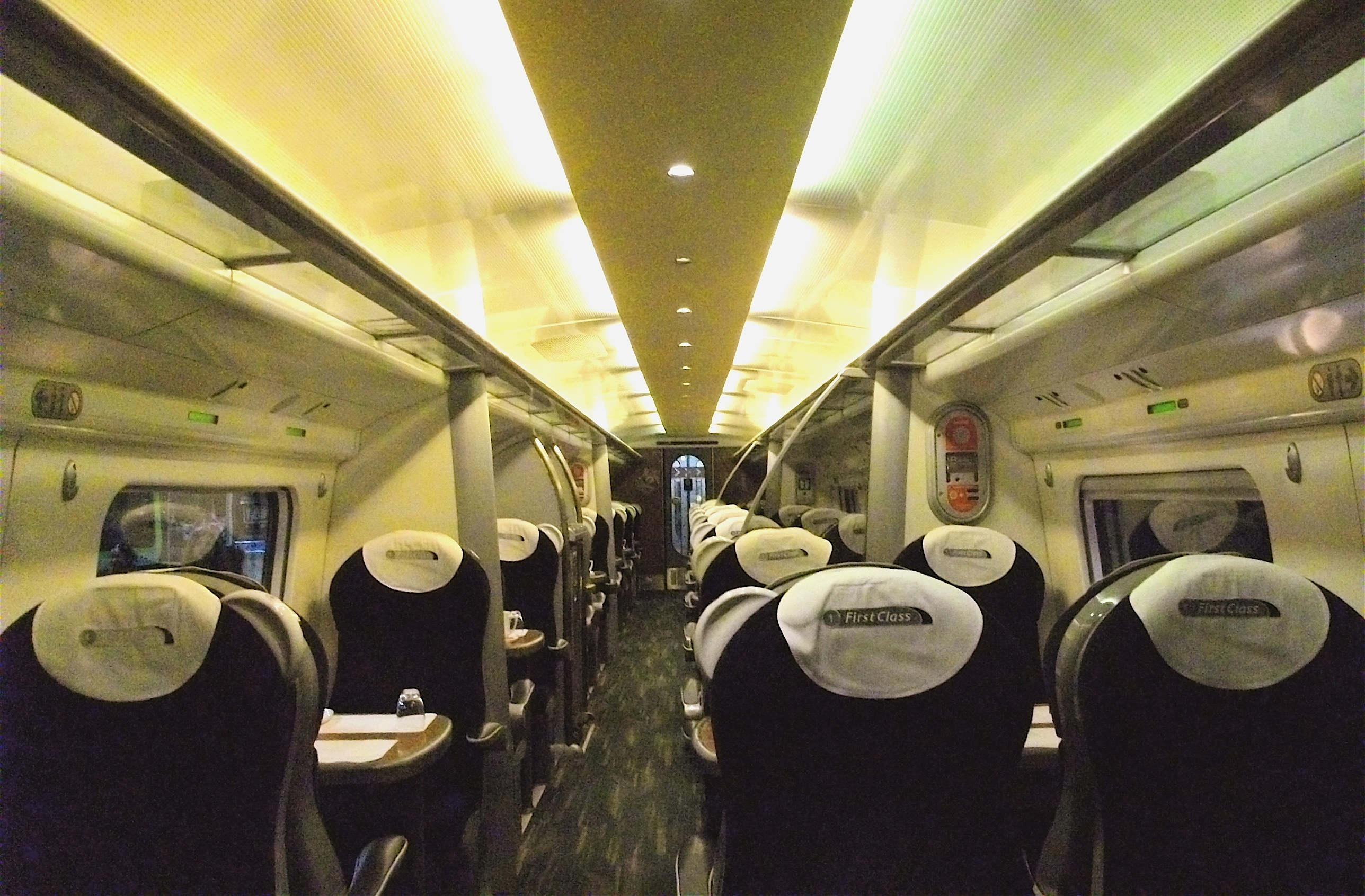 The interior of First Class aboard a Virgin Trains Class 390 Pendolino.